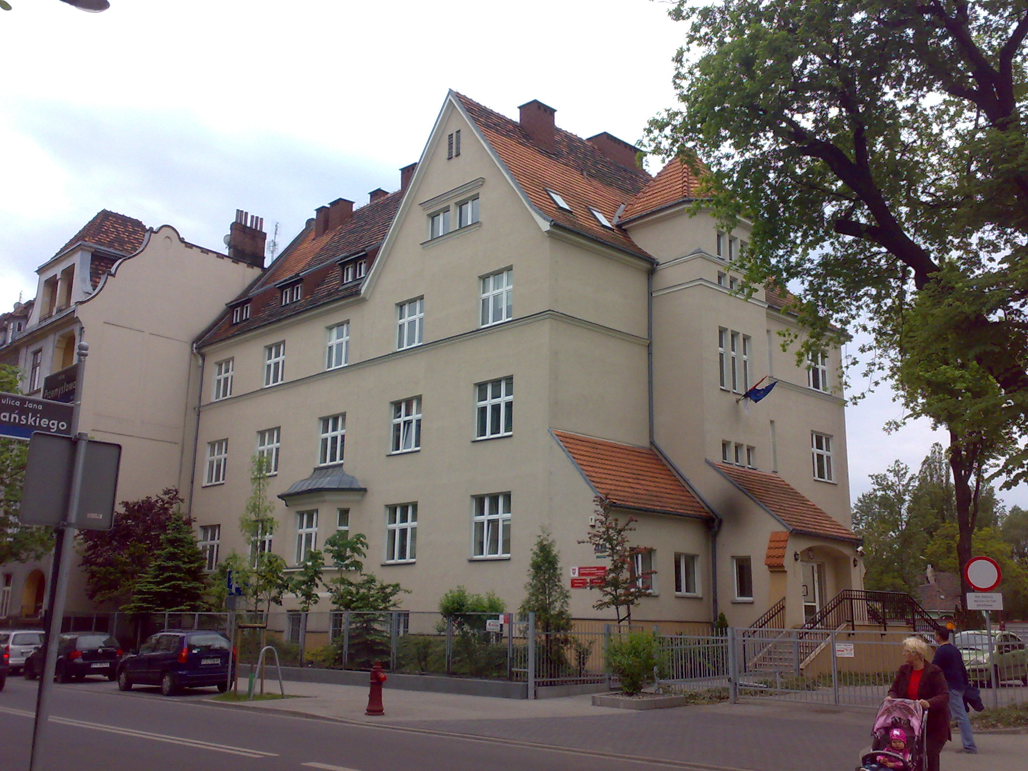 Paulinum building in Poznan.